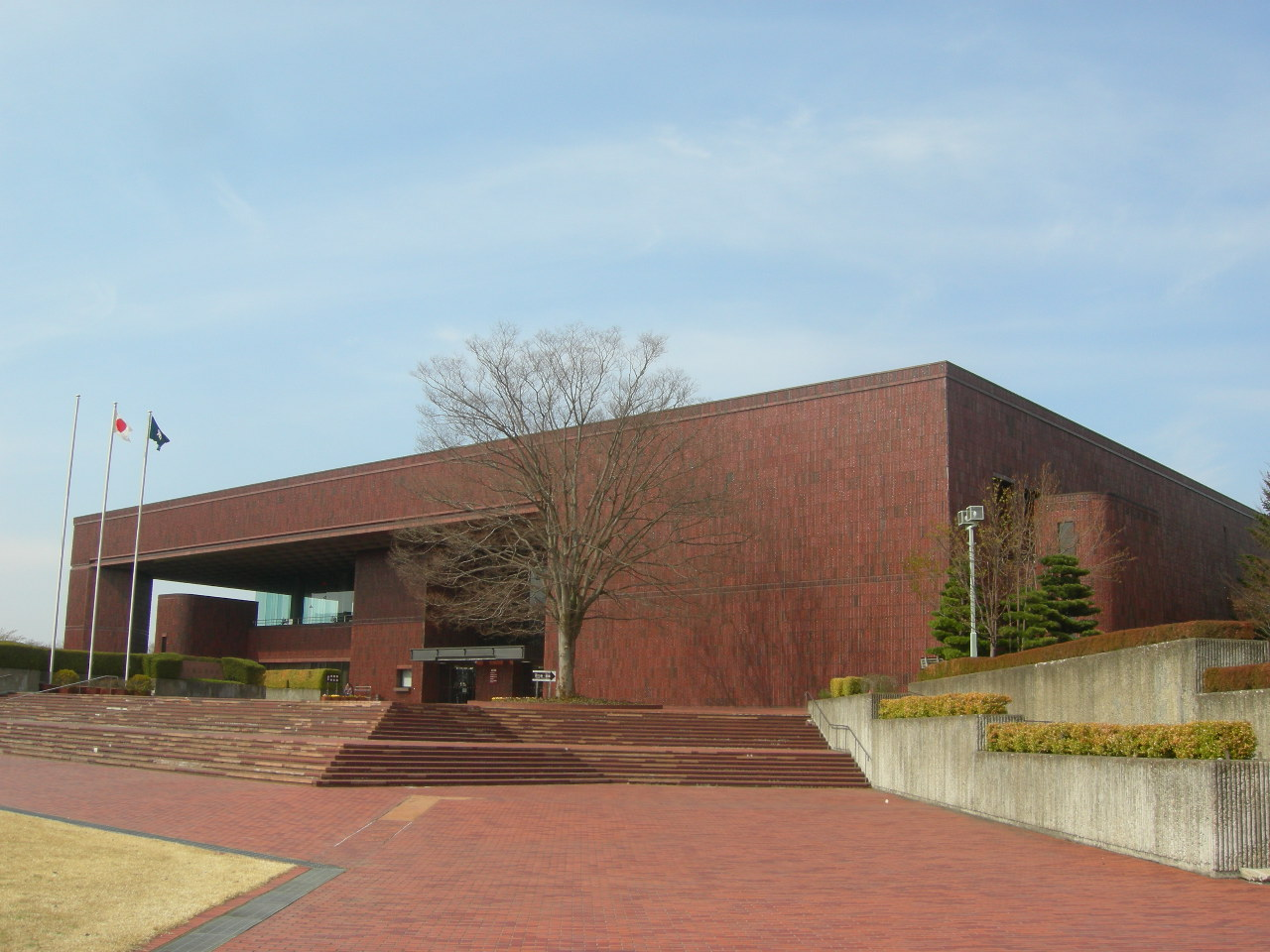 岩手県立博物館（Iwate prefecture museum,in Japan）